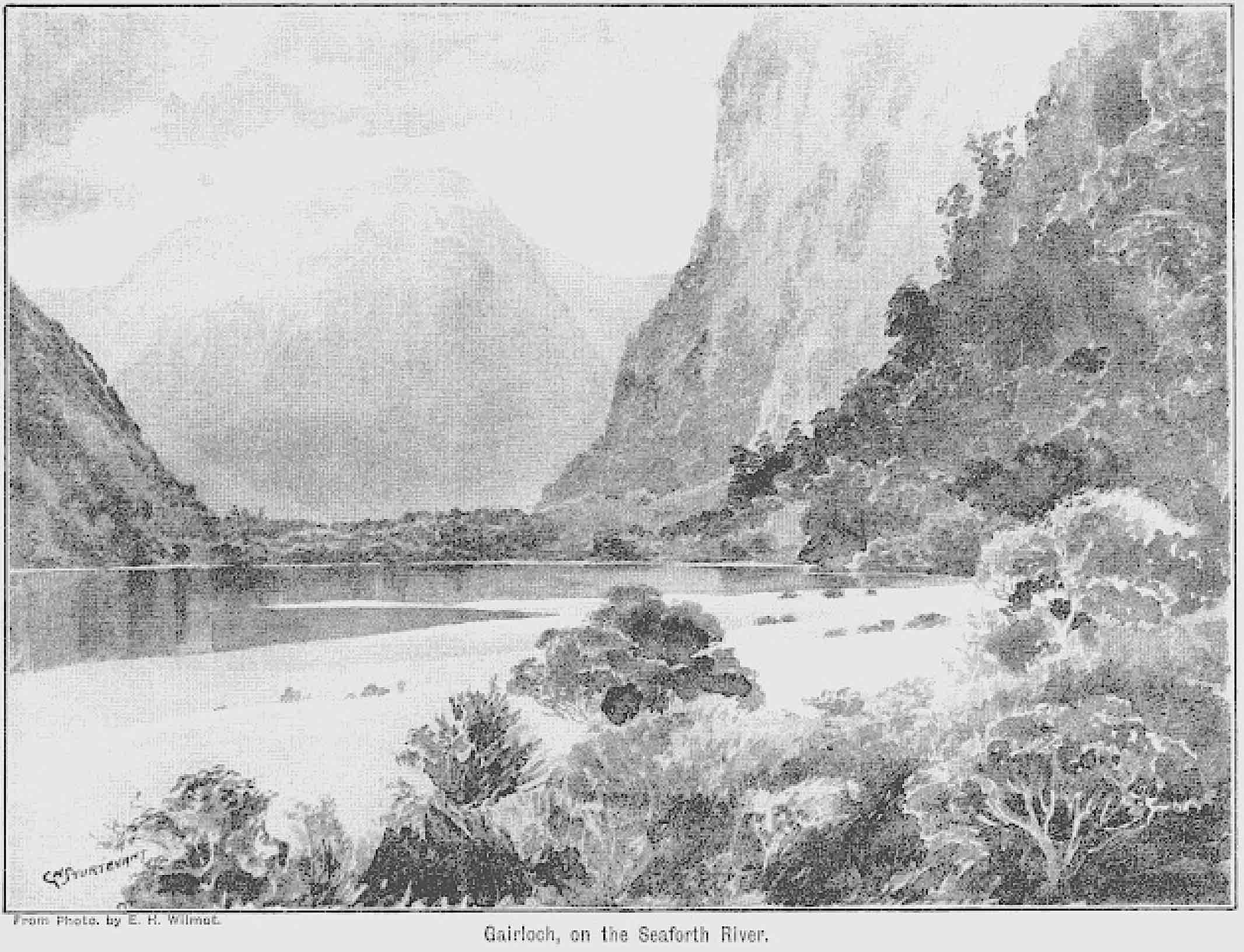 A lake formed by slumped debris, probably after 1826 earthquake